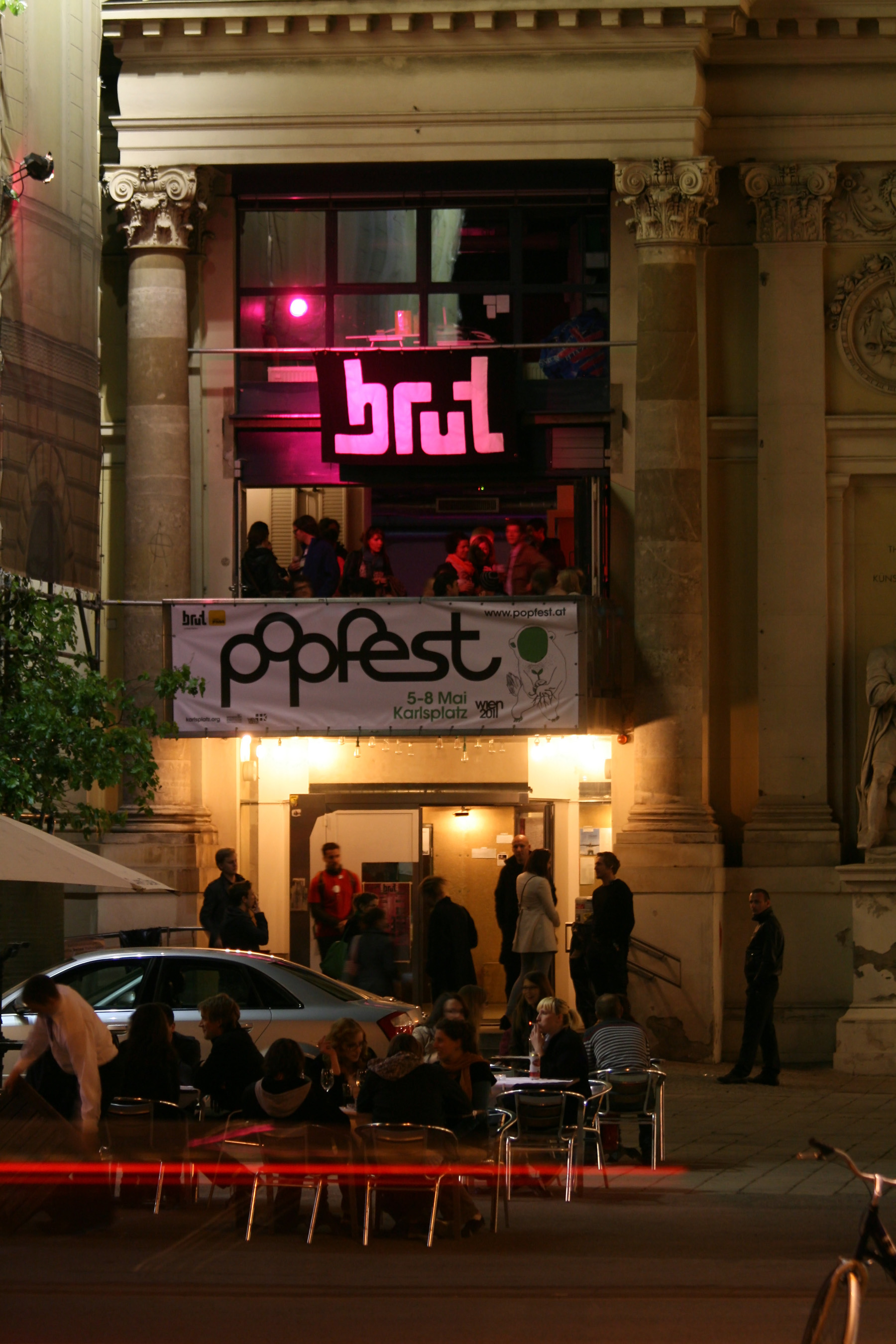 Entrance of brut im Künstlerhaus in Vienna during Popfest 2011.